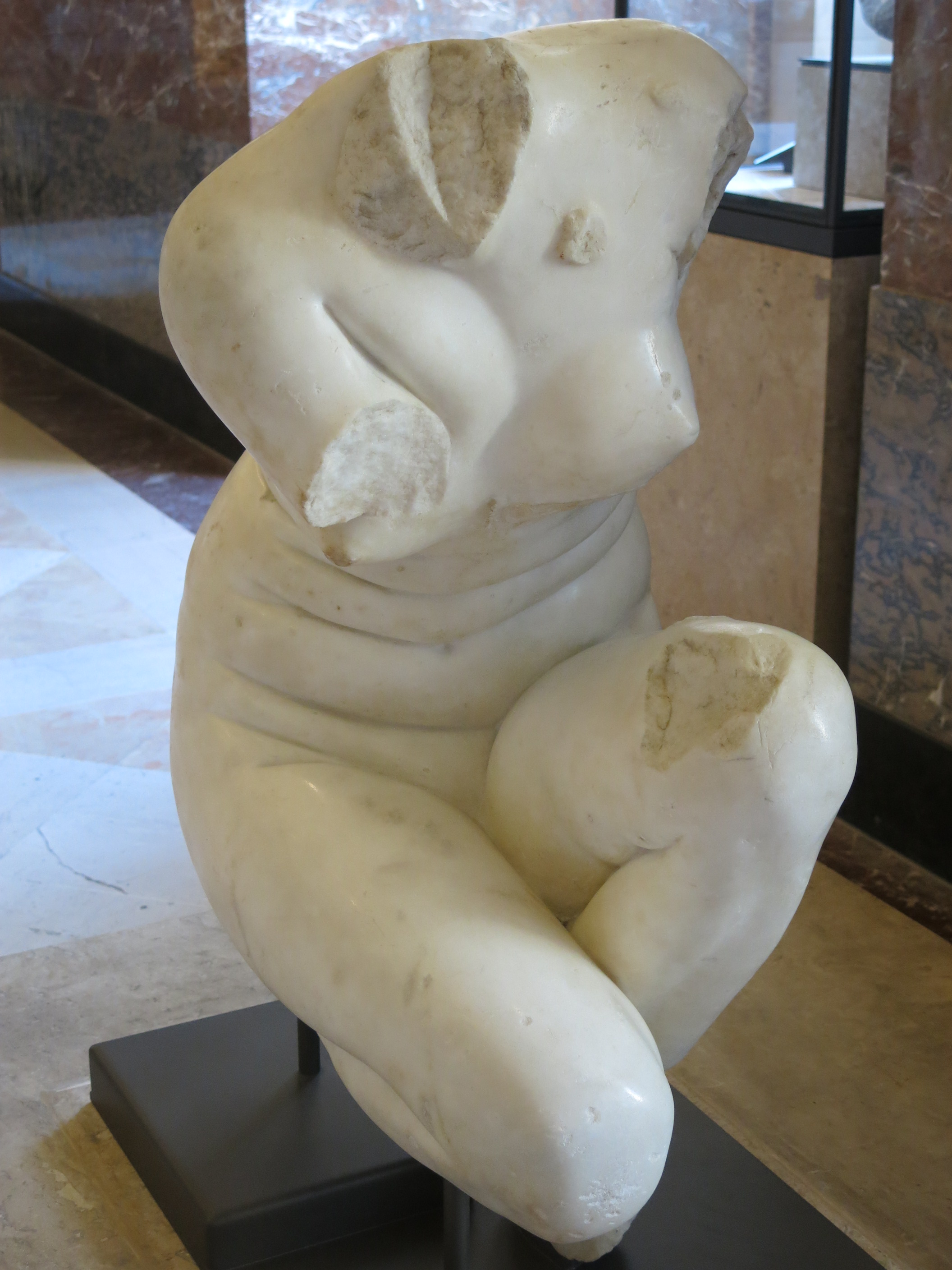 Bended Aphrodite, named "Venus of Vienne". Louvre Museum (Paris, France).